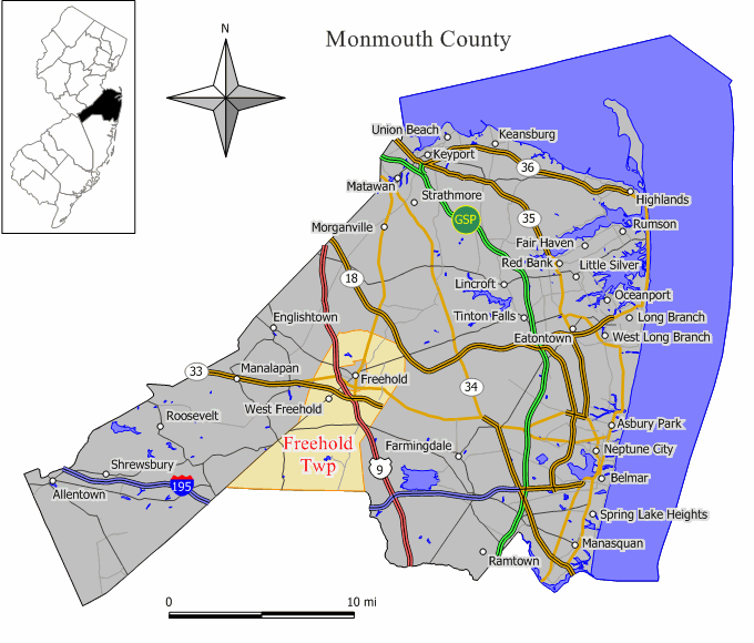 Original work by Jim Irwin, December 2005. Map of Freehold Township in Monmouth county, New Jersey.